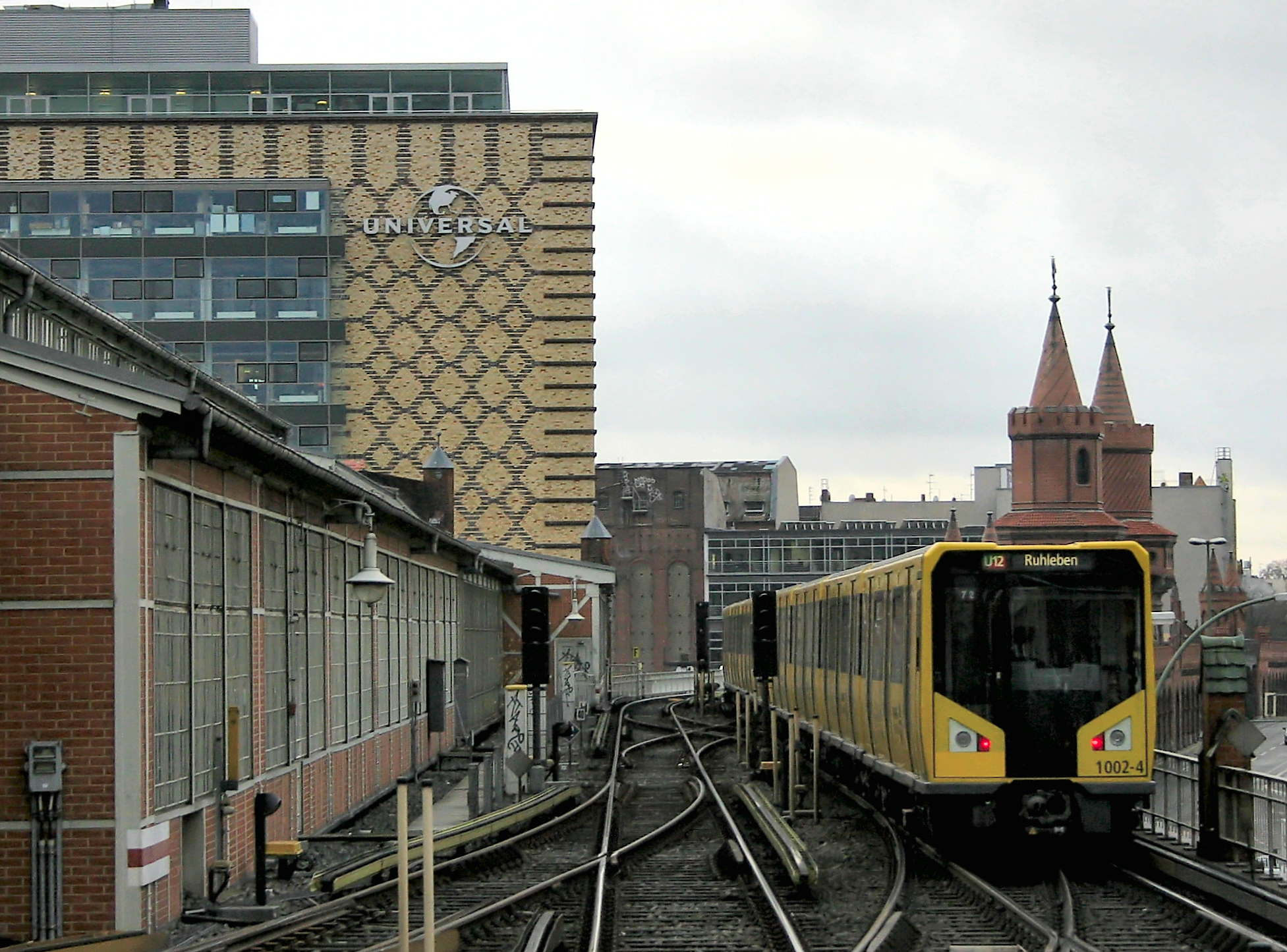 a Hk train near the U-Bahn station Warschauer Straße, line U12